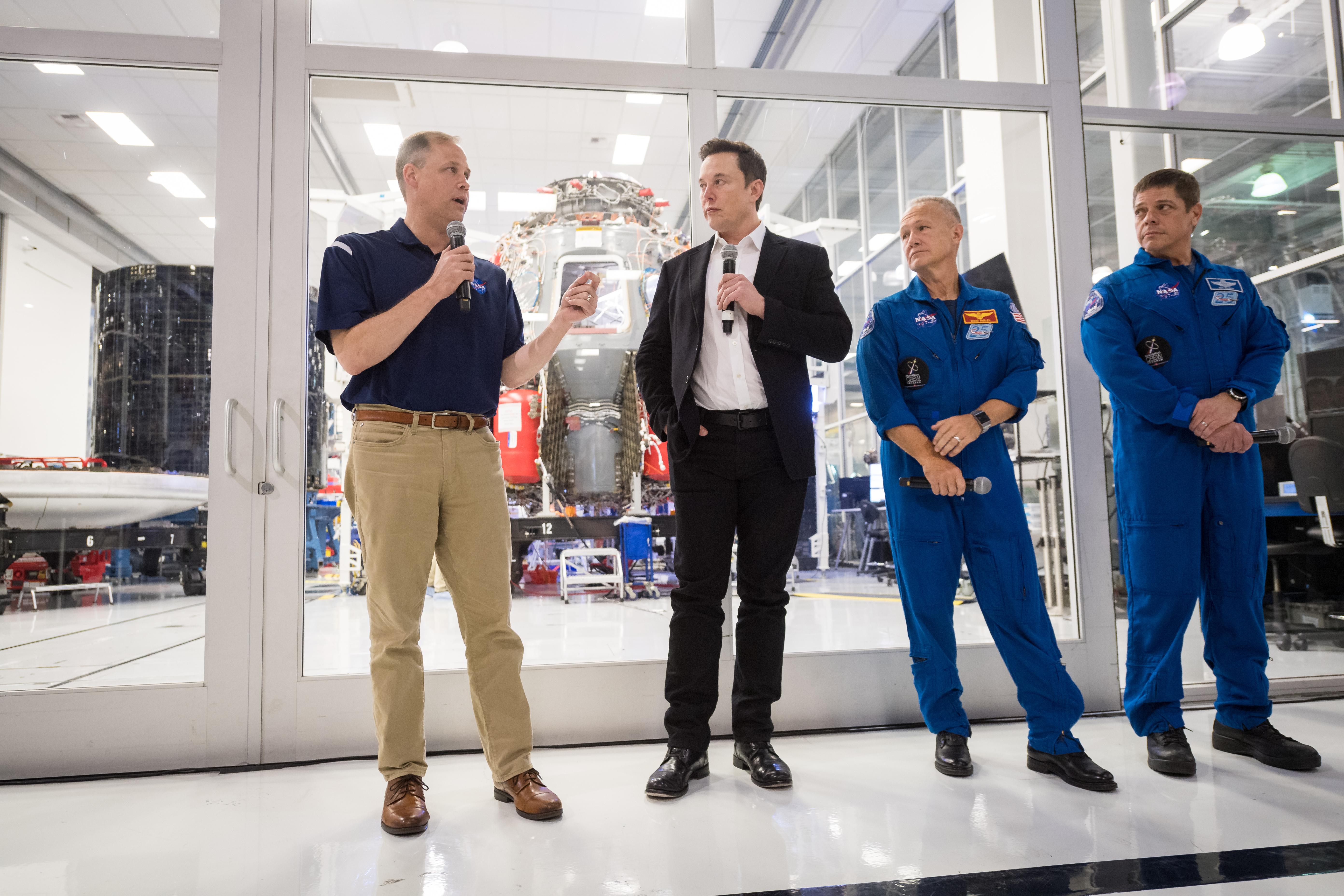 NASA Administrator Jim Bridenstine, left, speaks to press with SpaceX Chief Engineer Elon Musk, second from left, NASA astronaut Doug Hurley, second from right, and NASA astronaut Bob Behnken, in front of the Crew Dragon that is being prepared for the Demo-2 mission, at SpaceX Headquarters, Thursday, Oct. 10, 2019 in Hawthorne, CA. Photo credit: (NASA/Aubrey Gemignani)